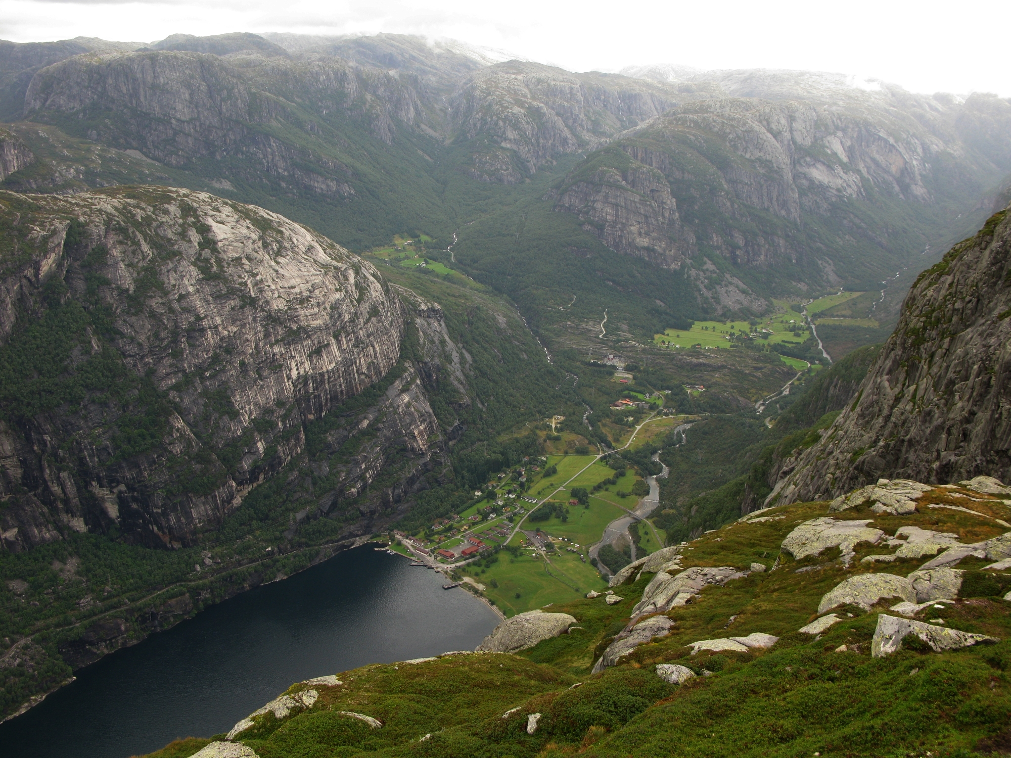 Lysebotn, Norway, 2010.